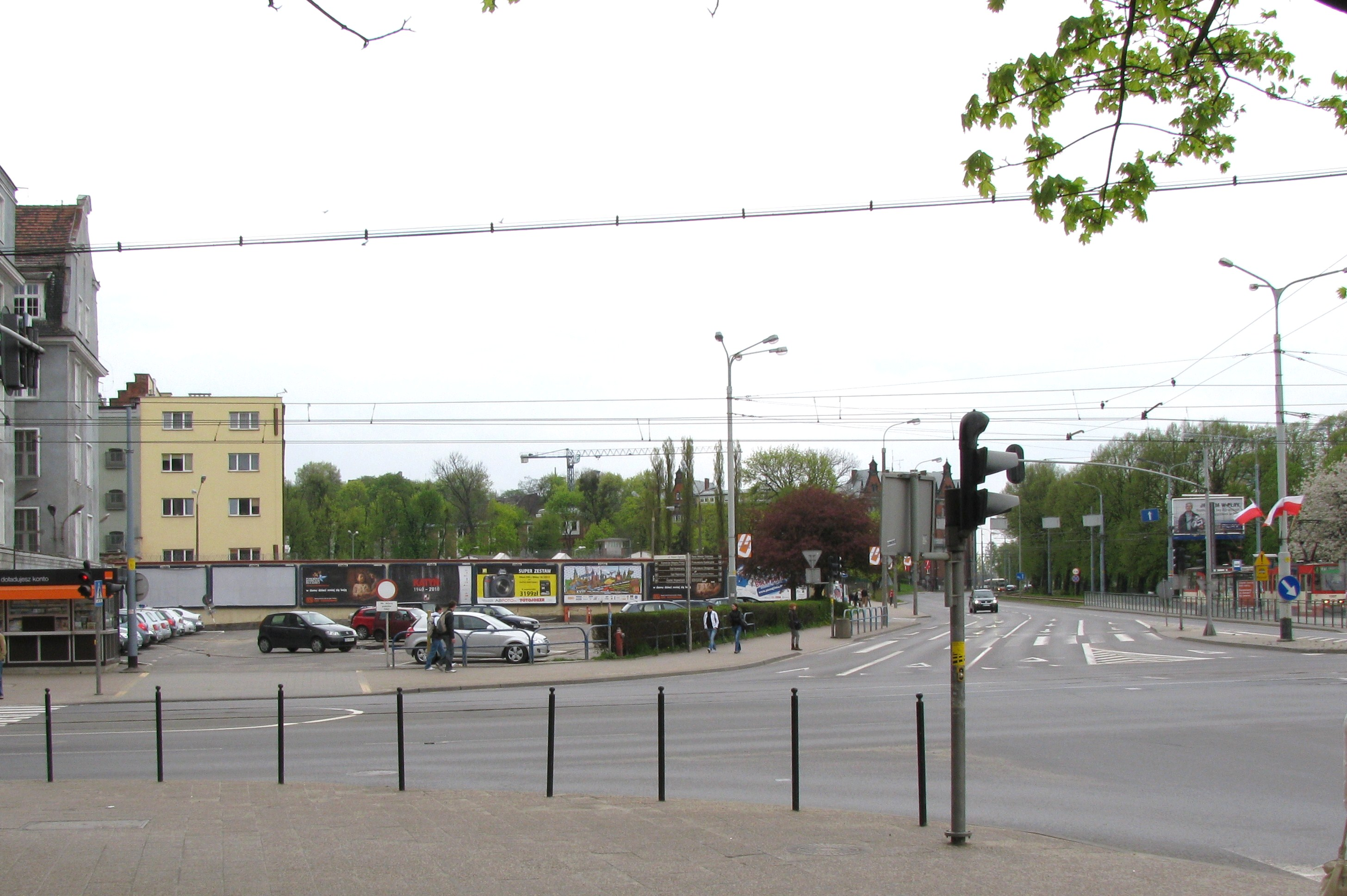 The building of the Volkstag of the Free City of Danzig existed here. Gdańsk, Poland.